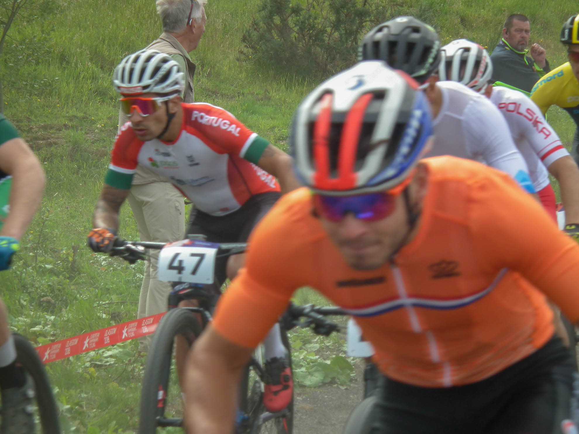 2018 European Mountain Bike Championships